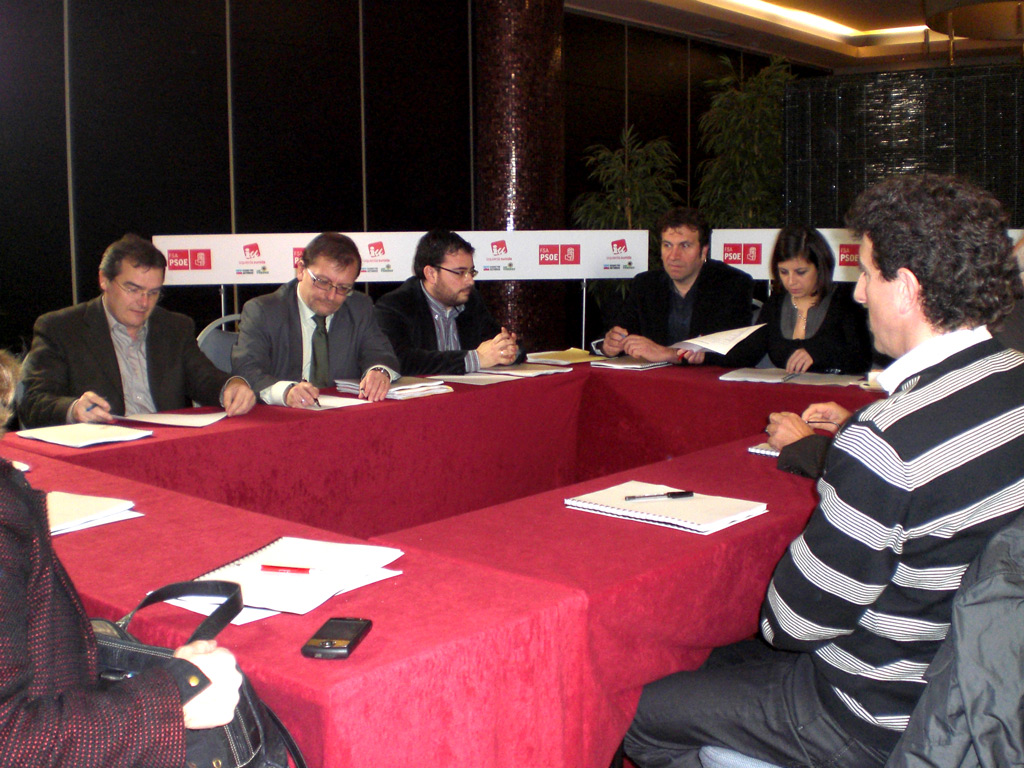 Comisión de Seguimiento del Pacto de Gobierno, firmado por FSA-PSOE e IU-BA-Verdes el día 4 de marzo de 2010